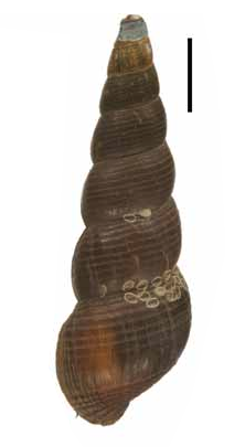 Photo of an abapertural view of a holotype shell of Tylomelania baskasti. Holotype MZB Gst. 12.108 (loc. 71-02), scale bar is 5 mm.